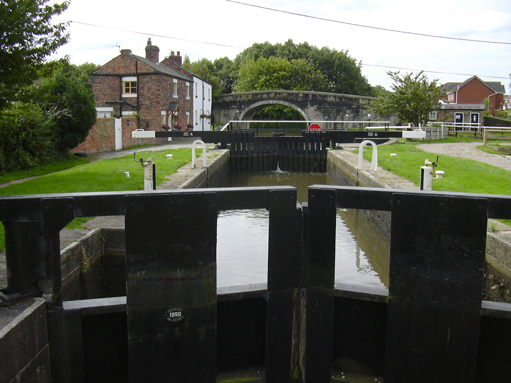 Rufford Branch of the Leeds-Liverpool Canal, Lancashire